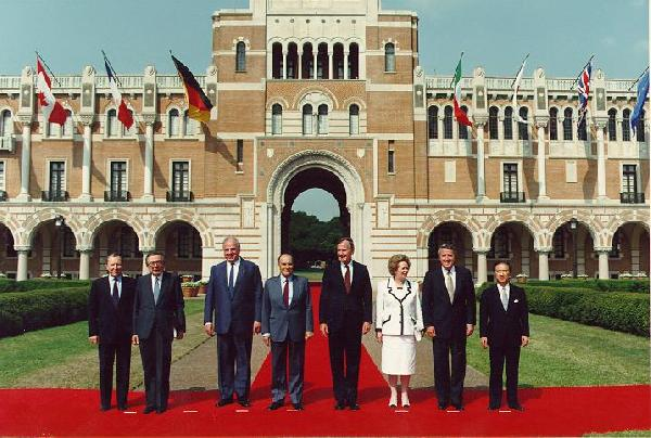 Leaders of Group of Seven posed for the photograph in Houston City, Texas State on July 9, 1990.